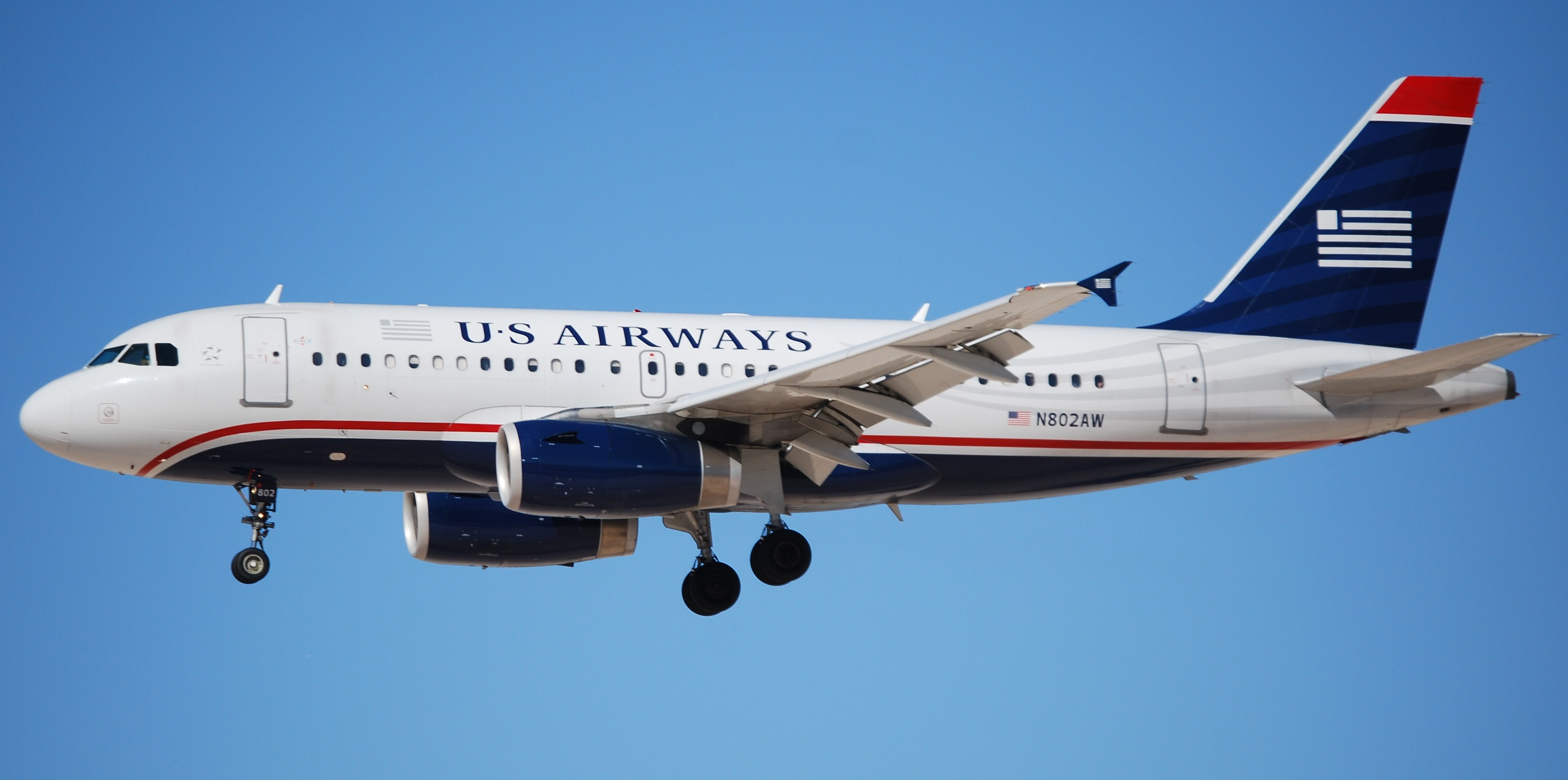 An Airbus A319 of US Airways' lanMcCarran International Airport, Las Vegas.